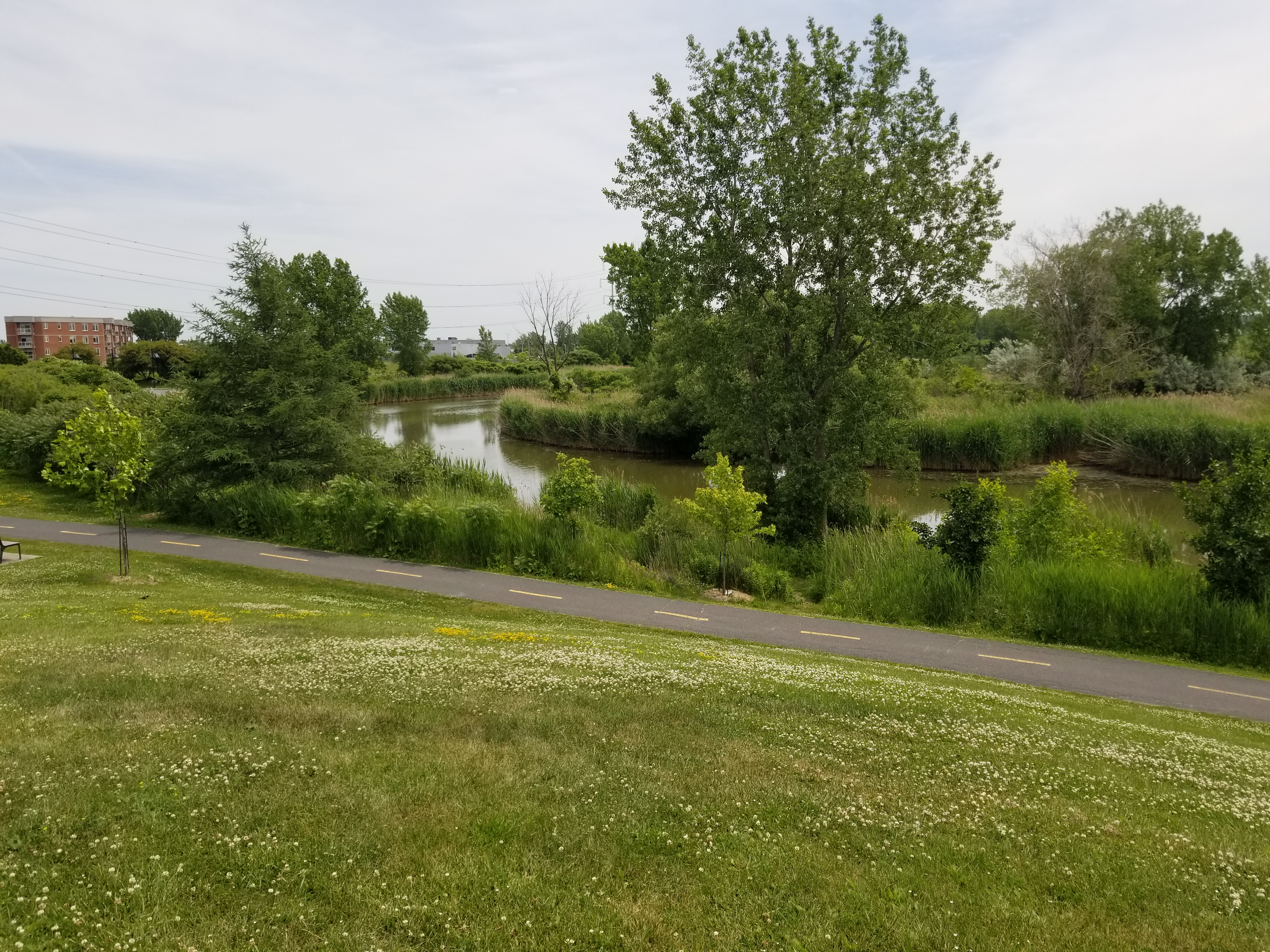 Saint-Jacques River, seen from Radisson park in Brossard as of June 27, 2018.